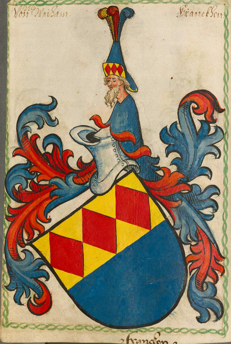 Coats of arms of Wilhermsdorf